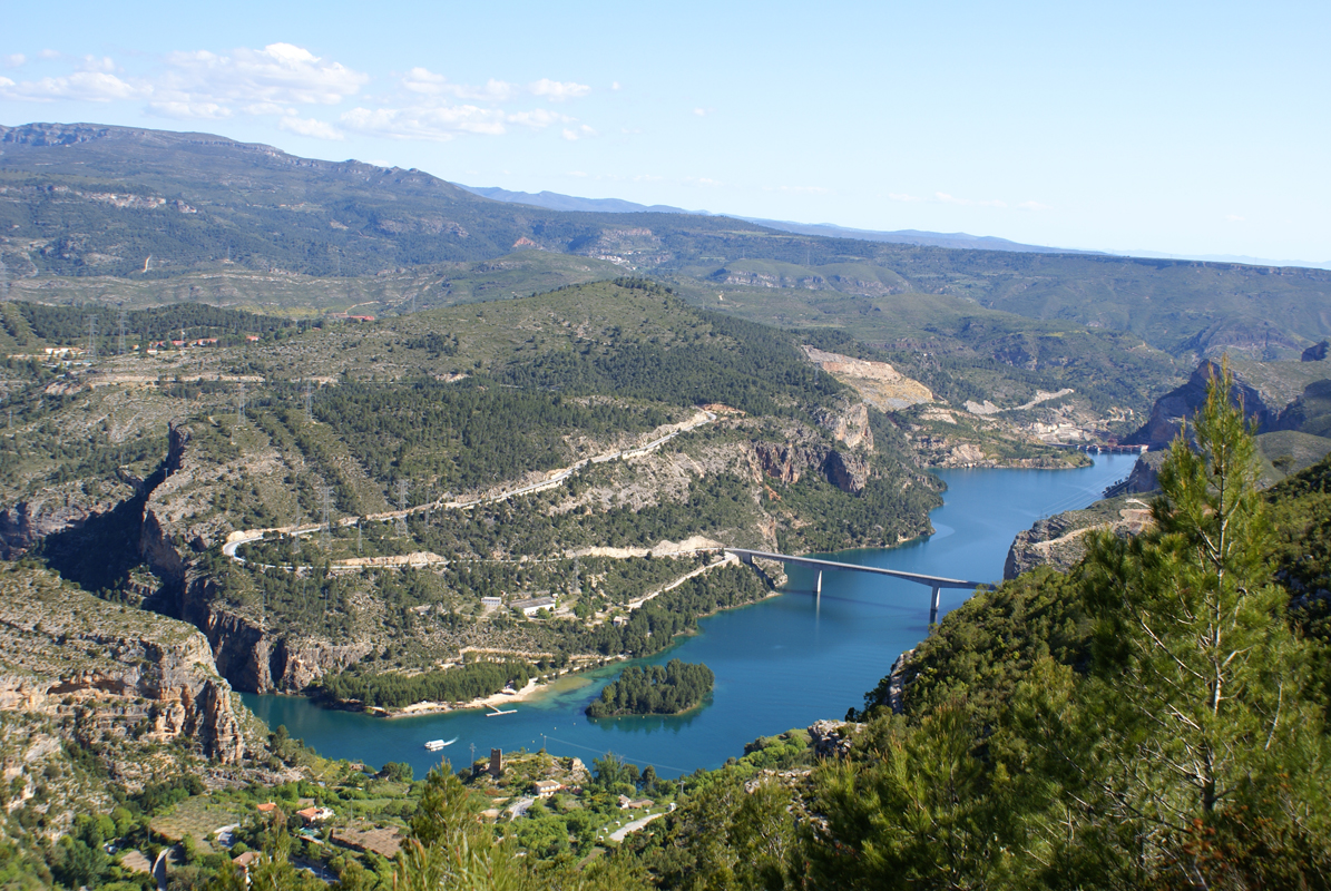 vistas desde la Muela de Cortes de Pallás